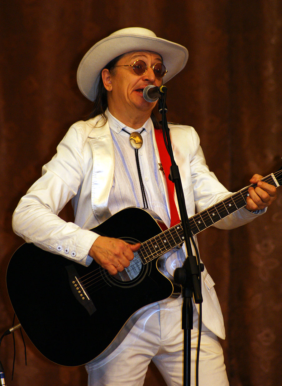 Valeri Yarushin in Chelyabinsk, 2008 dec 06